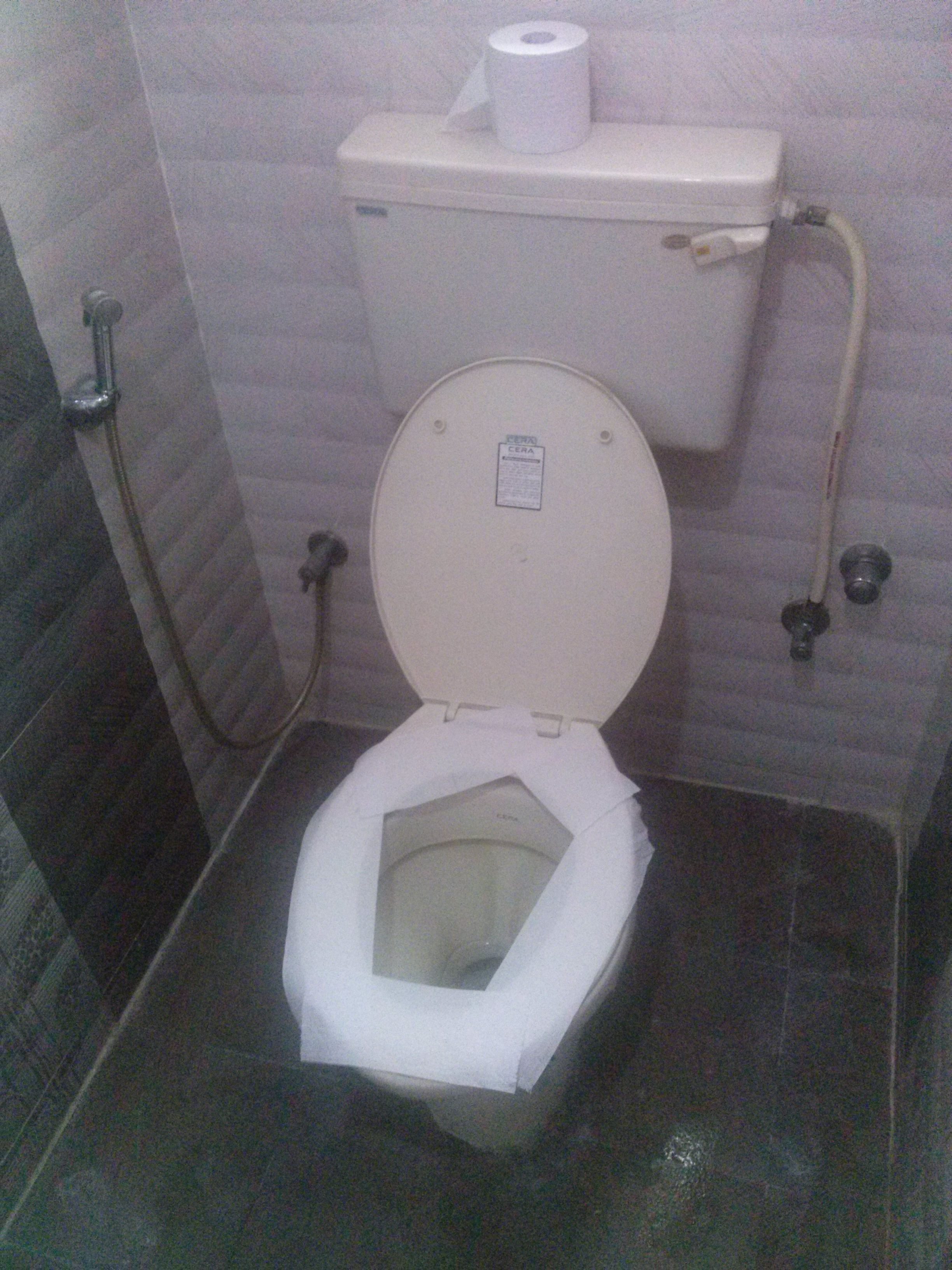 toilet tissue paper roll spread on seat